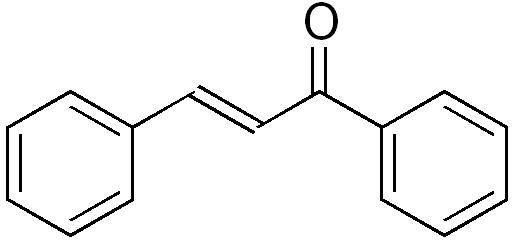 chemical structure of chalcone